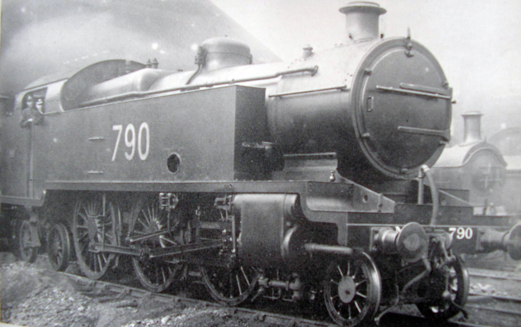 An image of the prototype K class locomotive from the Locomotive Publishing Company collection, now under the custodianship of the British National Railway Museum, with which the copyright currently rests. The museum is a non-departmental public body sponsored by the Department for Culture. The image was taken c. 1922, location unknown. (Source: Dendy Marshall, C. F. and Kidner, Robert: History of the Southern Railway (Hinckley: Ian Allan, 1963). It is believed that: PD-UKGov